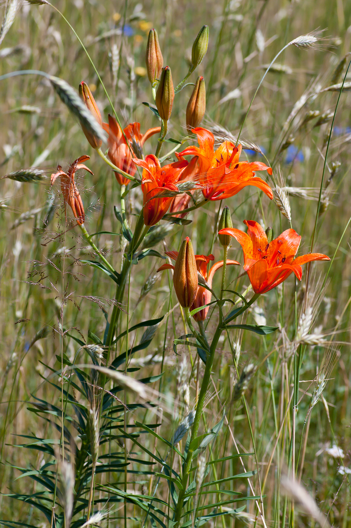 Flowering Lilium bulbiferum ssp. croceum in a rye field on sandy, nutrient-poor soil.